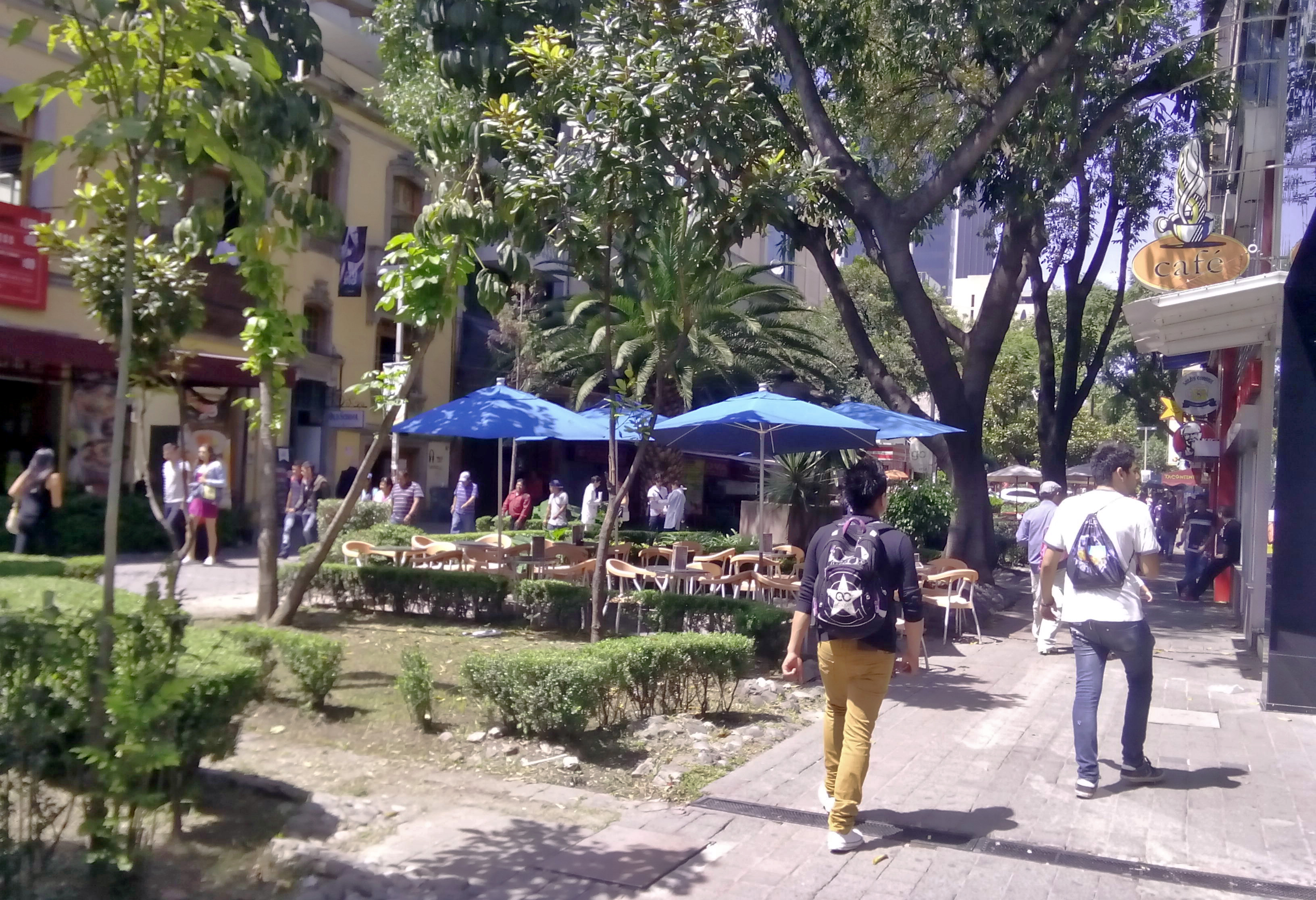 Mexico City's Génova street in Zona Rosa LGBTTTI's zone